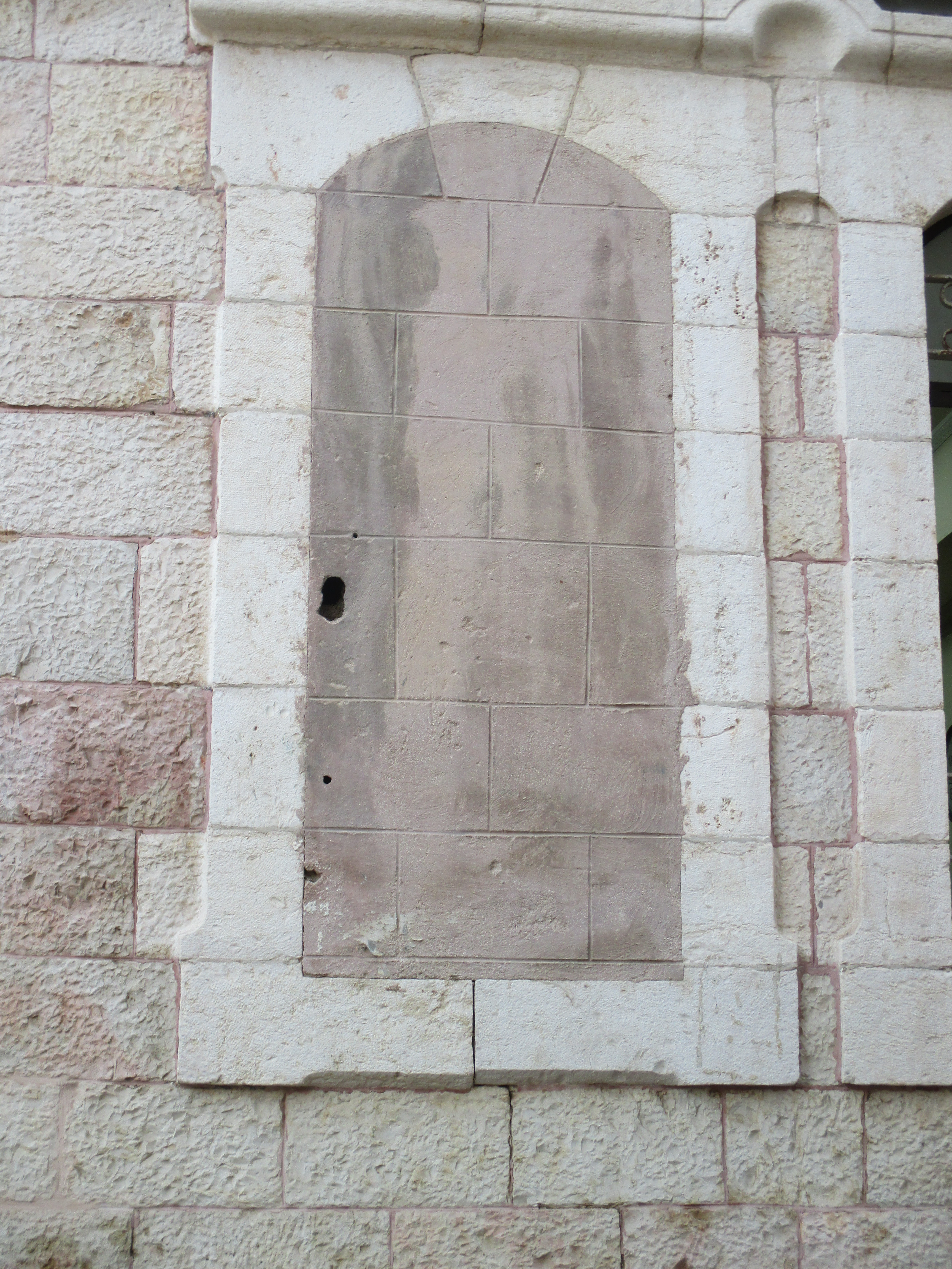 Jerusalem, Ishtori HaParhi st